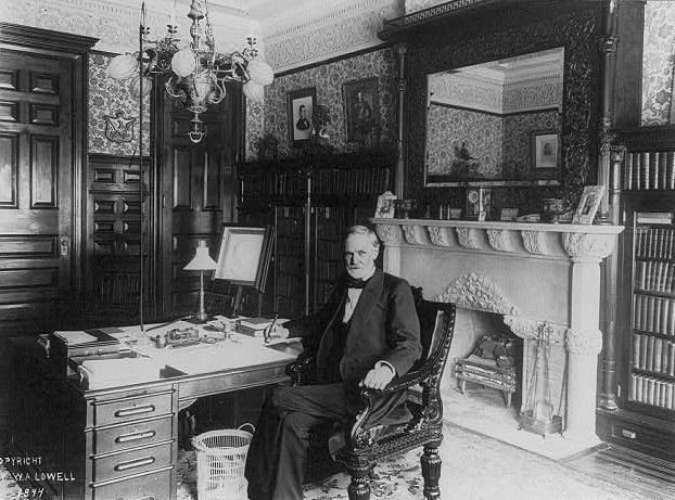 John Sherman